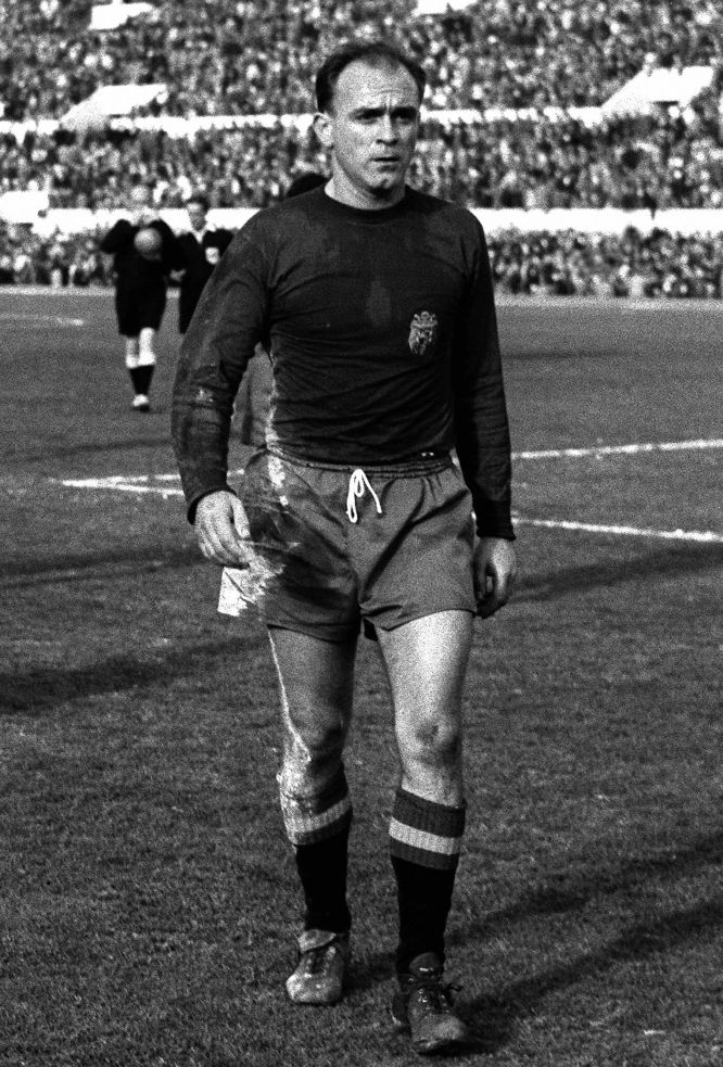 Rome (Italy), Olympic Stadium, February 28, 1959. Argentine-born footballer Alfredo Di Stéfano, Spanish naturalized, leave the pitch during the friendly game between Italy and Spain (1-1).